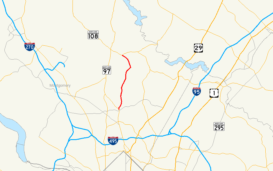 Map of Maryland Route 182